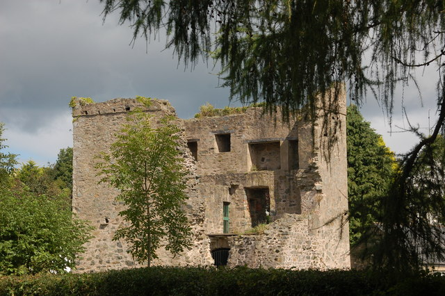 Quoile Castle, a castle situated near Downpatrick, County Down, Northern Ireland, just off the main road from Downpatrick to Strangford.